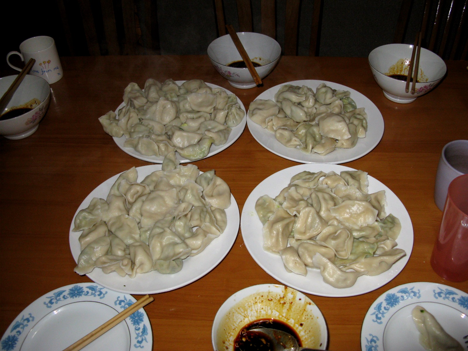 Winter solstice 冬至 - you have to make 饺子 in case your ears fall off!